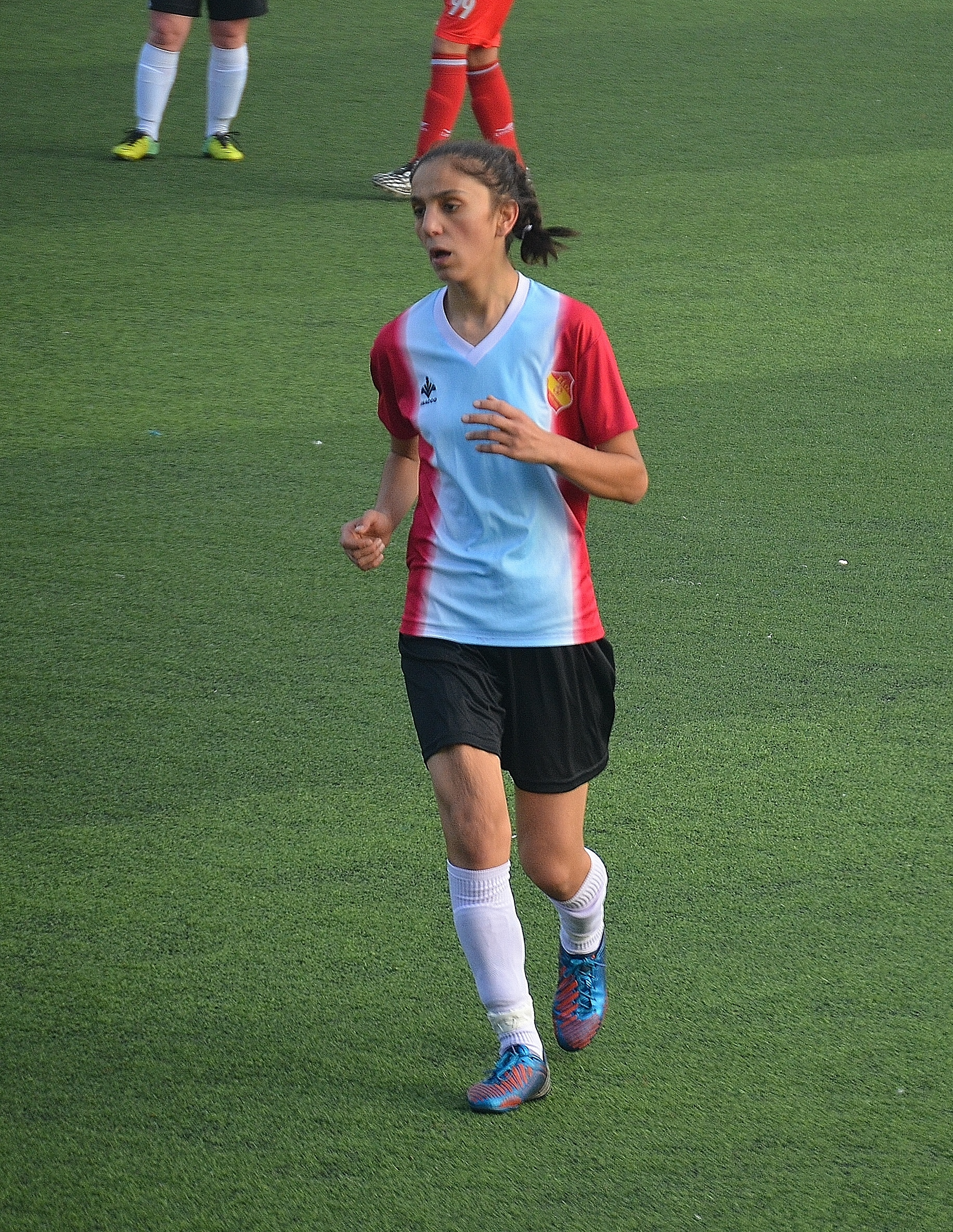 Eda Karataş for Trabzon İdmanocağı (women) in the away match of the 2014-15 season against Ataşehir Belediyespor